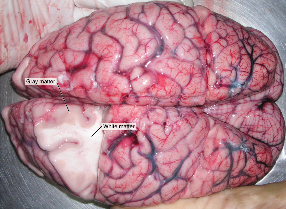 Version 8.25 from the Textbook OpenStax Anatomy and Physiology Published May 18, 2016